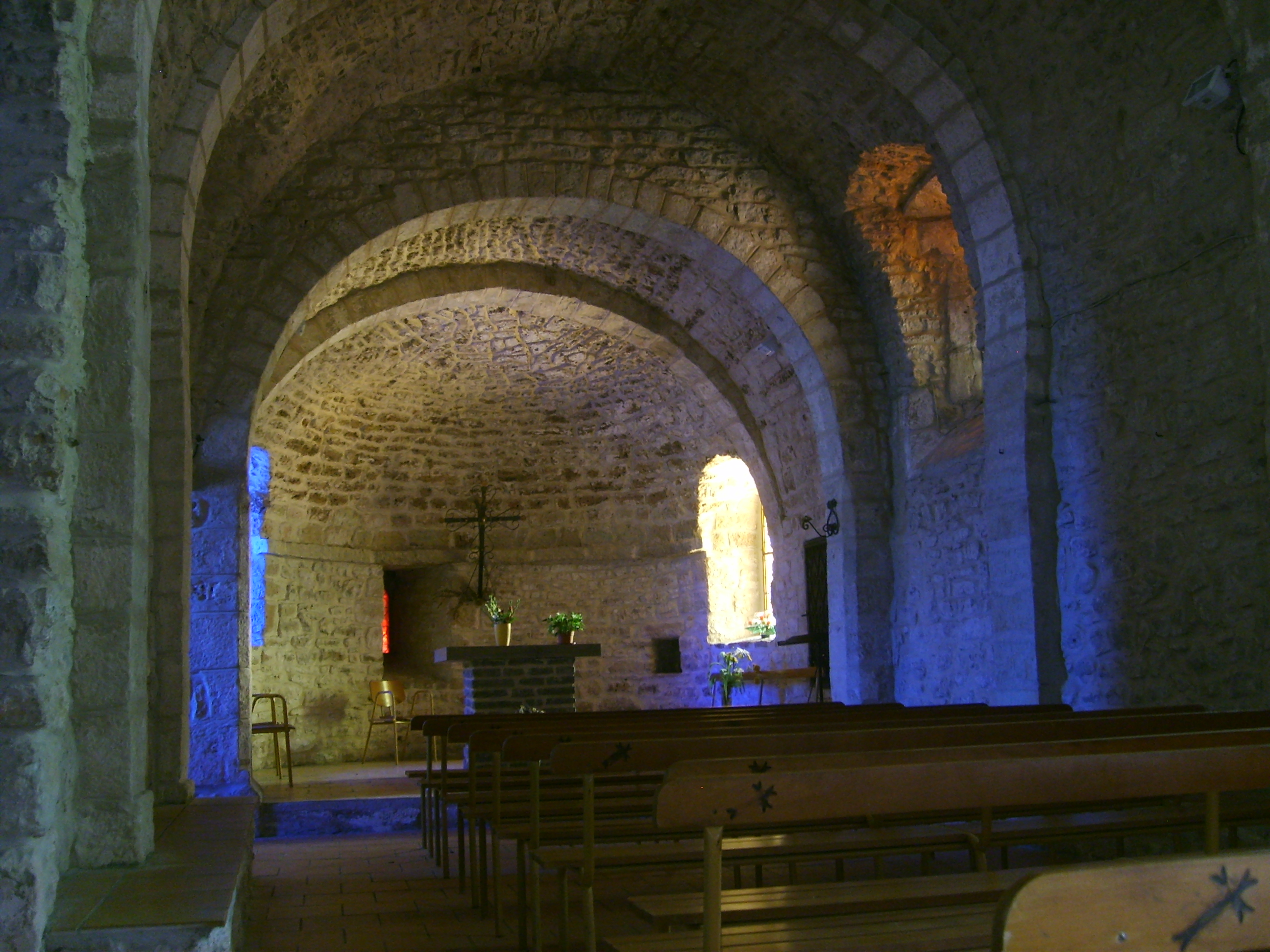 Church Notre-Dame-de-Capimont, in Lamalou-les-Bains (Hérault) in France.